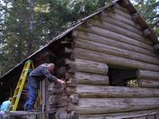 Bagby Guard Station, Mount Hood National Forest, Oregon, United States, under repair. The station is listed on the US National Register of Historic Places (NRHP). NRHP reference number 99001088